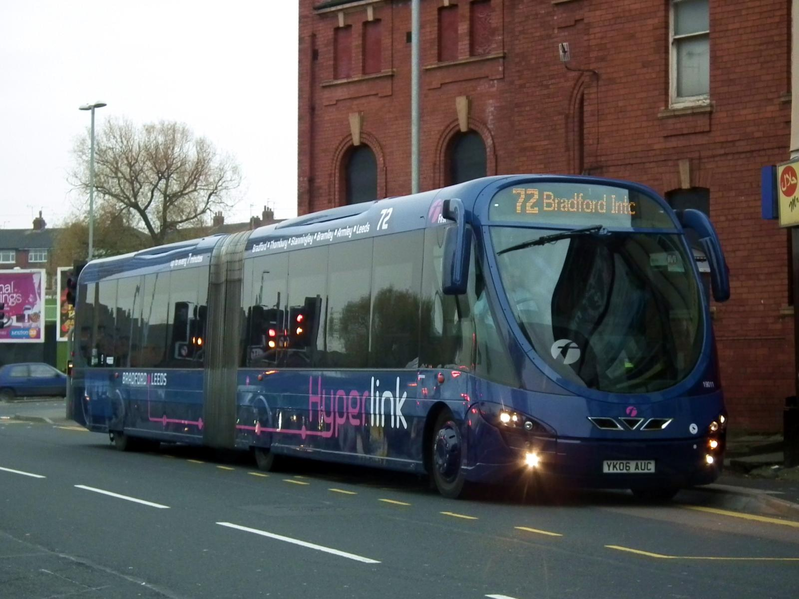 Looks nice with front fog lights on